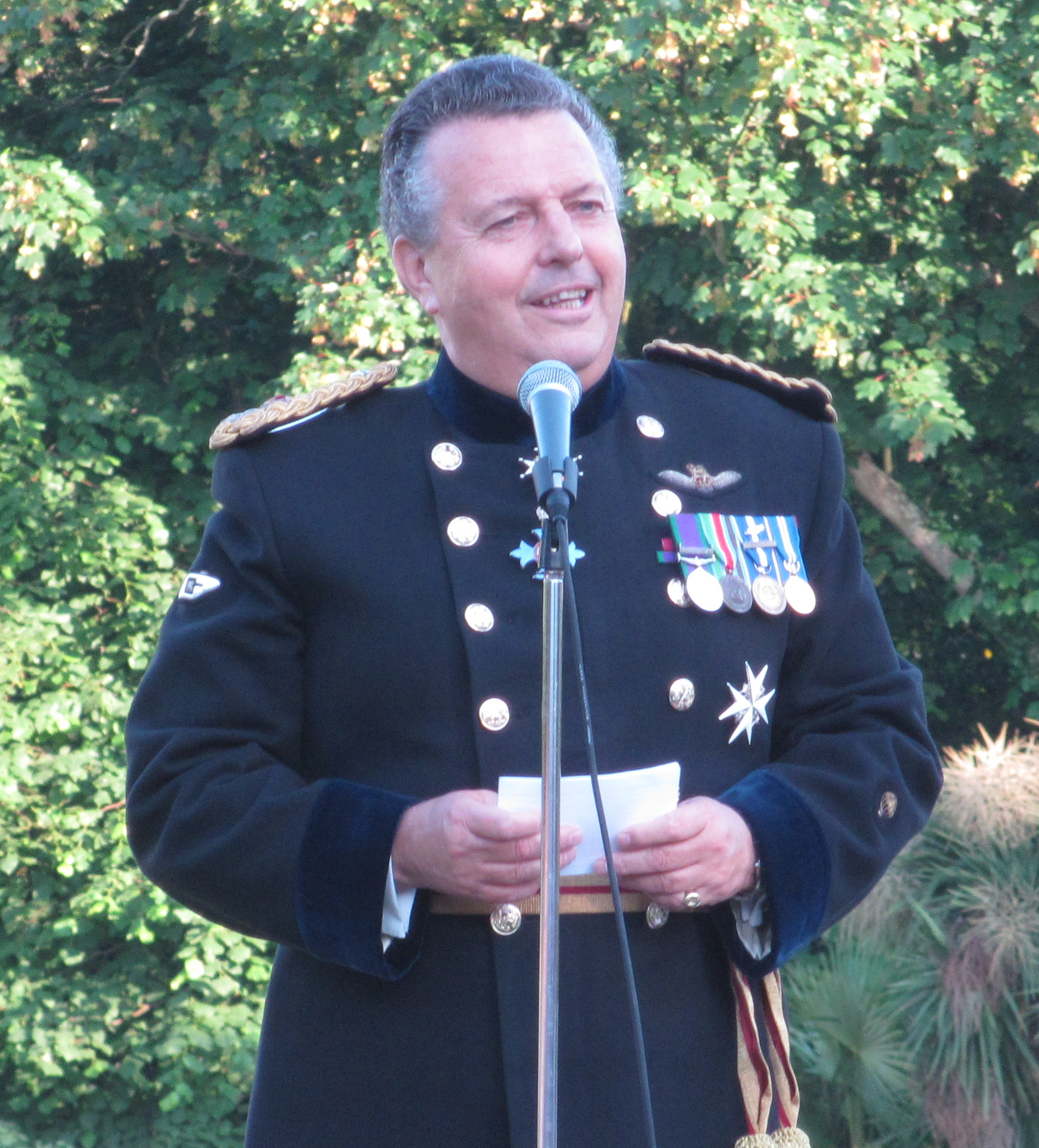 Andrew Ridgway. Queen's Official Birthday reception at Government House, Jersey, 11 June 2010